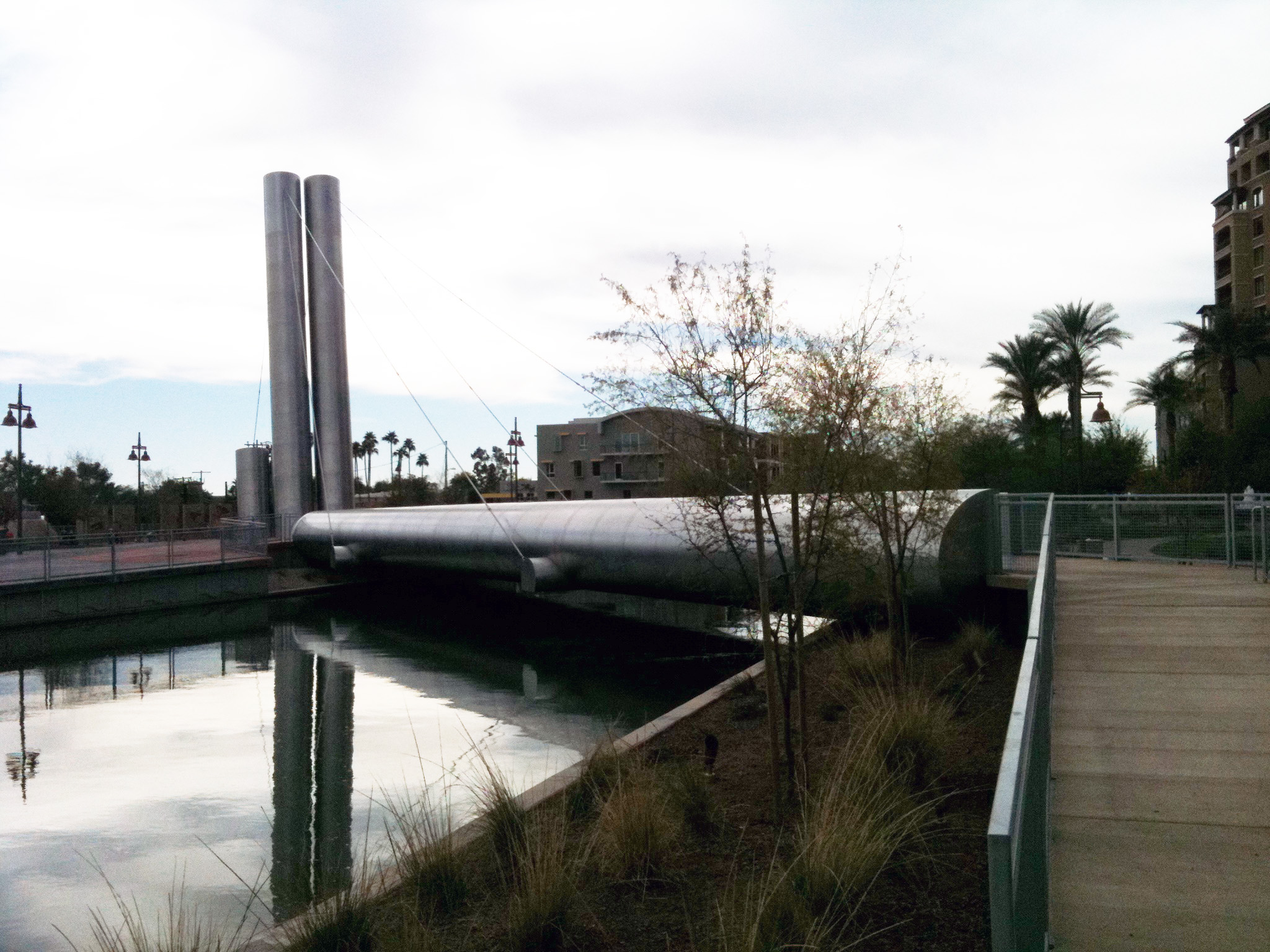 Photo of the pedestrian bridge adjacent to Scottsdale Road over the Arizona Canal. The bridge was designed by architect Paolo Soleri.